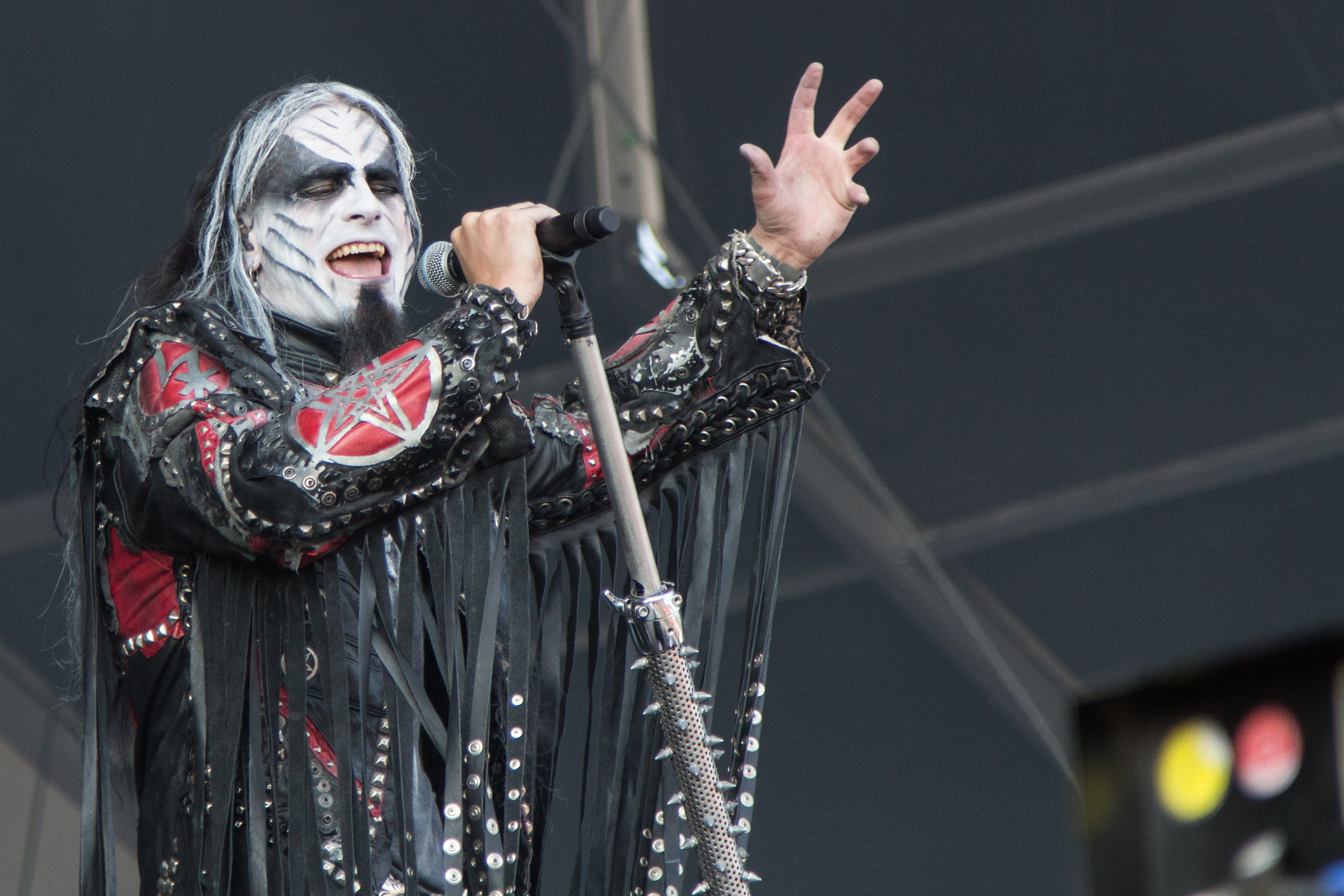 Stian Tomt "Shagrath" Thoresen from Dimmu Borgir at the See-Rock Festival 2014